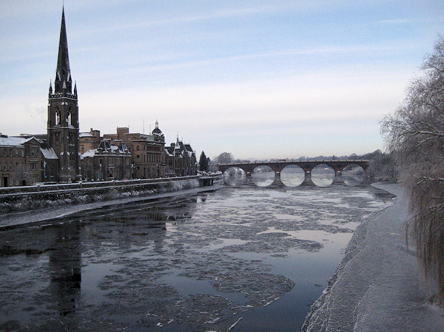 Ice forming on the Tay In temperatures well below zero ice has formed along each bank of the Tay, with ice floes floating down the central channel. If the low temperatures persist the river could eventually freeze over completely despite the tidal variations in water level. This has happened once before in the past twenty years, although I don't remember which year it was.